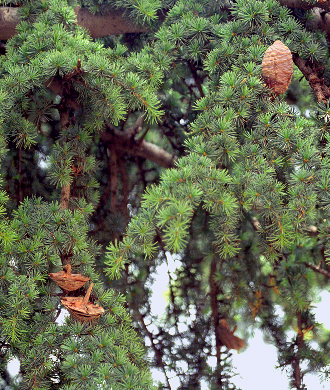 Cedrus libani var. libani — Lebanon Cedar; cones. In the Cedars of God nature preserve on Mount Lebanon, Lebanon.